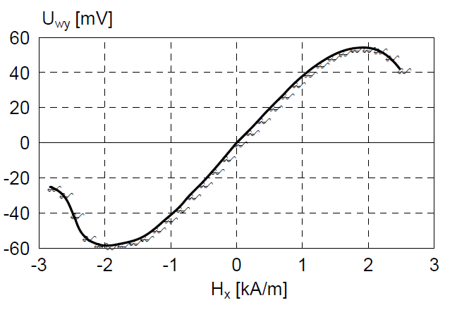 Charakterystyka przetwarzania AMR